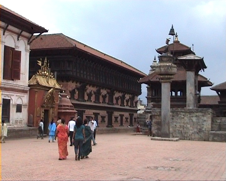 palace in Bhaktapur